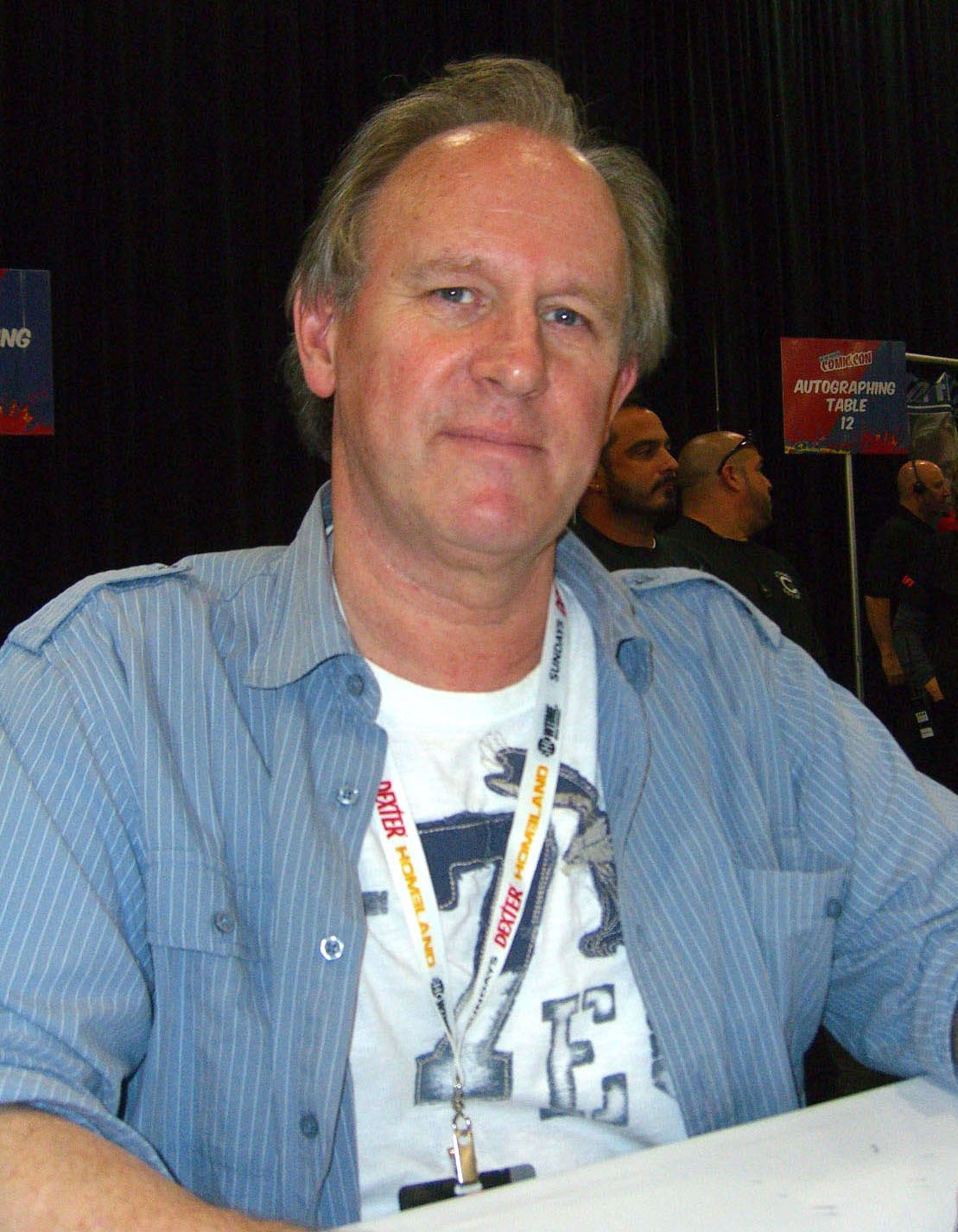 Actor Peter Davison on Day 4 of the 2012 New York Comic Con, Sunday October 14, 2012 at the Jacob K. Javits Convention Center in Manhattan. This photo was created by Luigi Novi. It is not in the public domain, and use of this file outside of the licensing terms is a copyright violation.